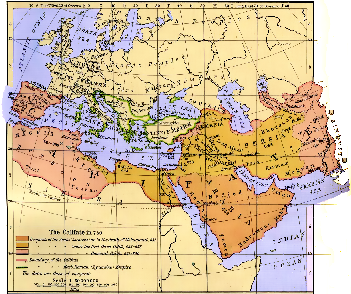 Middle East and Europe - The Caliphate in 750